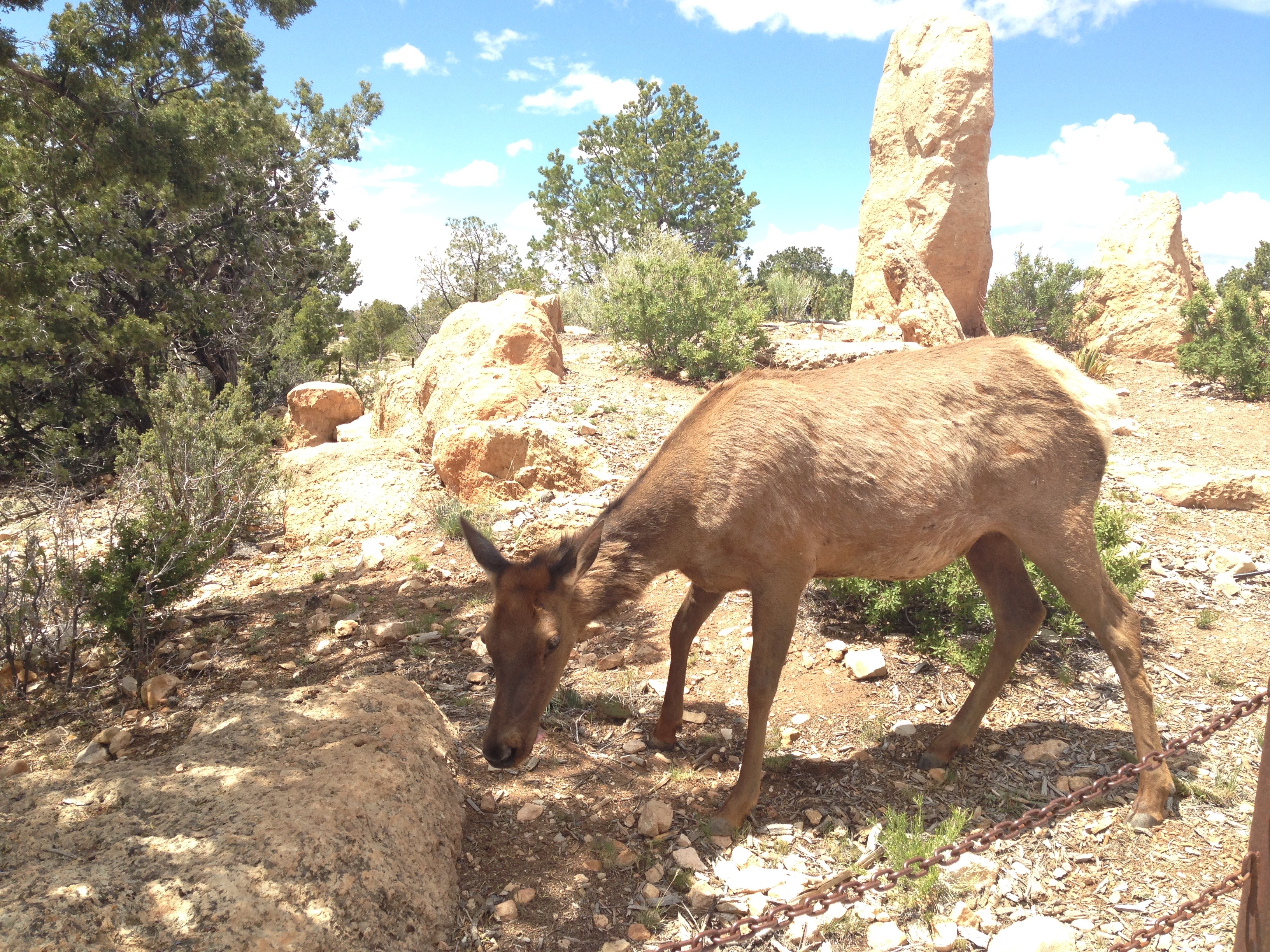 Female elk near the walking path, Grand Canyon South Rim, 2015